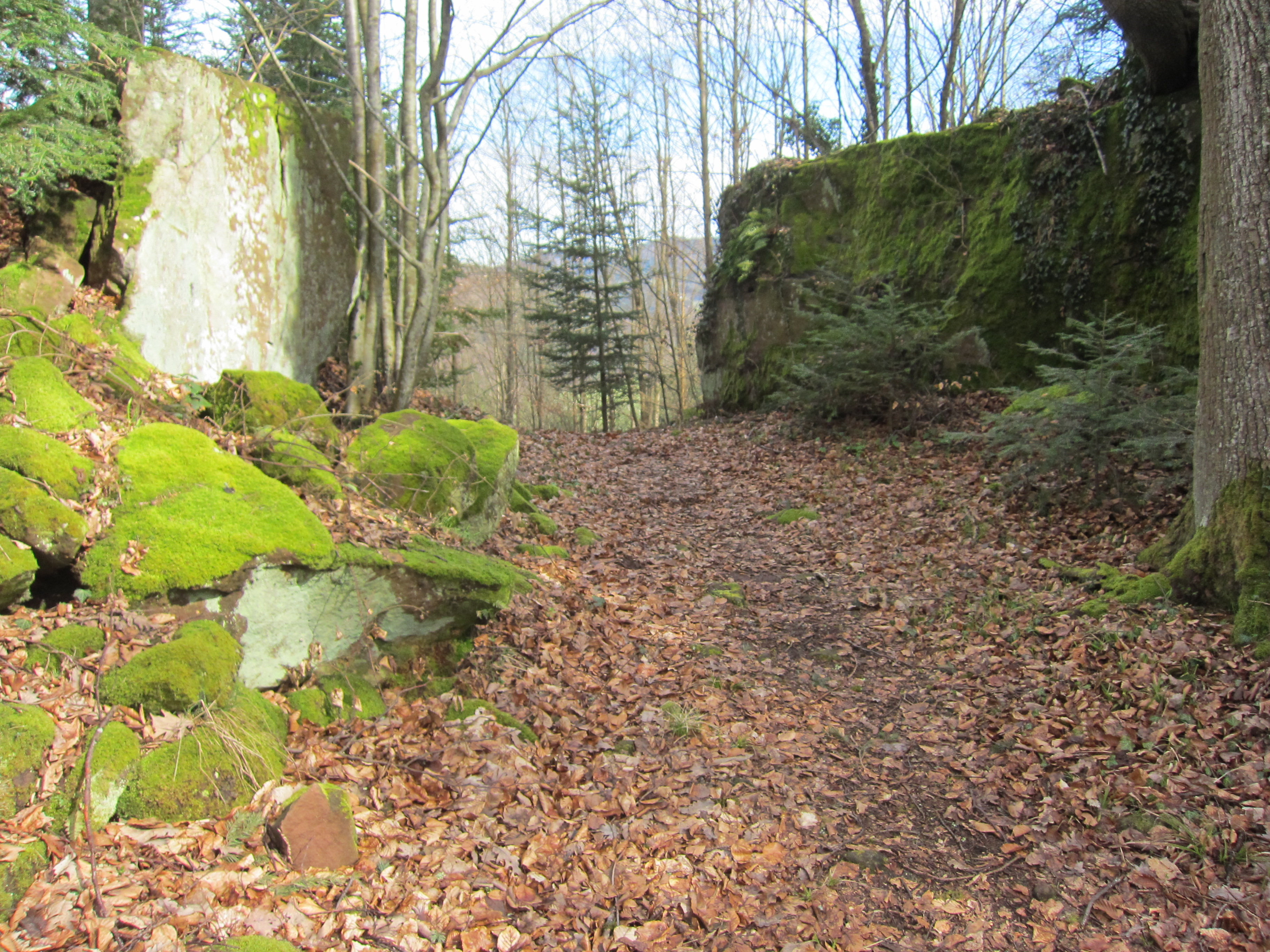 Lützelhardt Castle, the castle's anterior part on the left and the castle's middle part on the right (looking northwards)